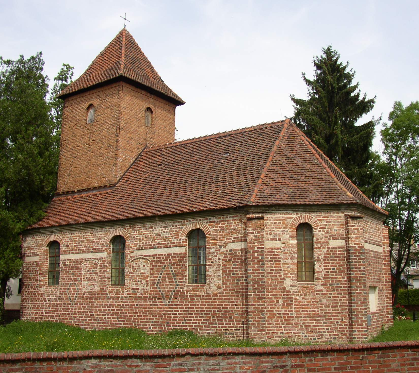 Church in Wust-Briest in Saxony-Anhalt, Germany